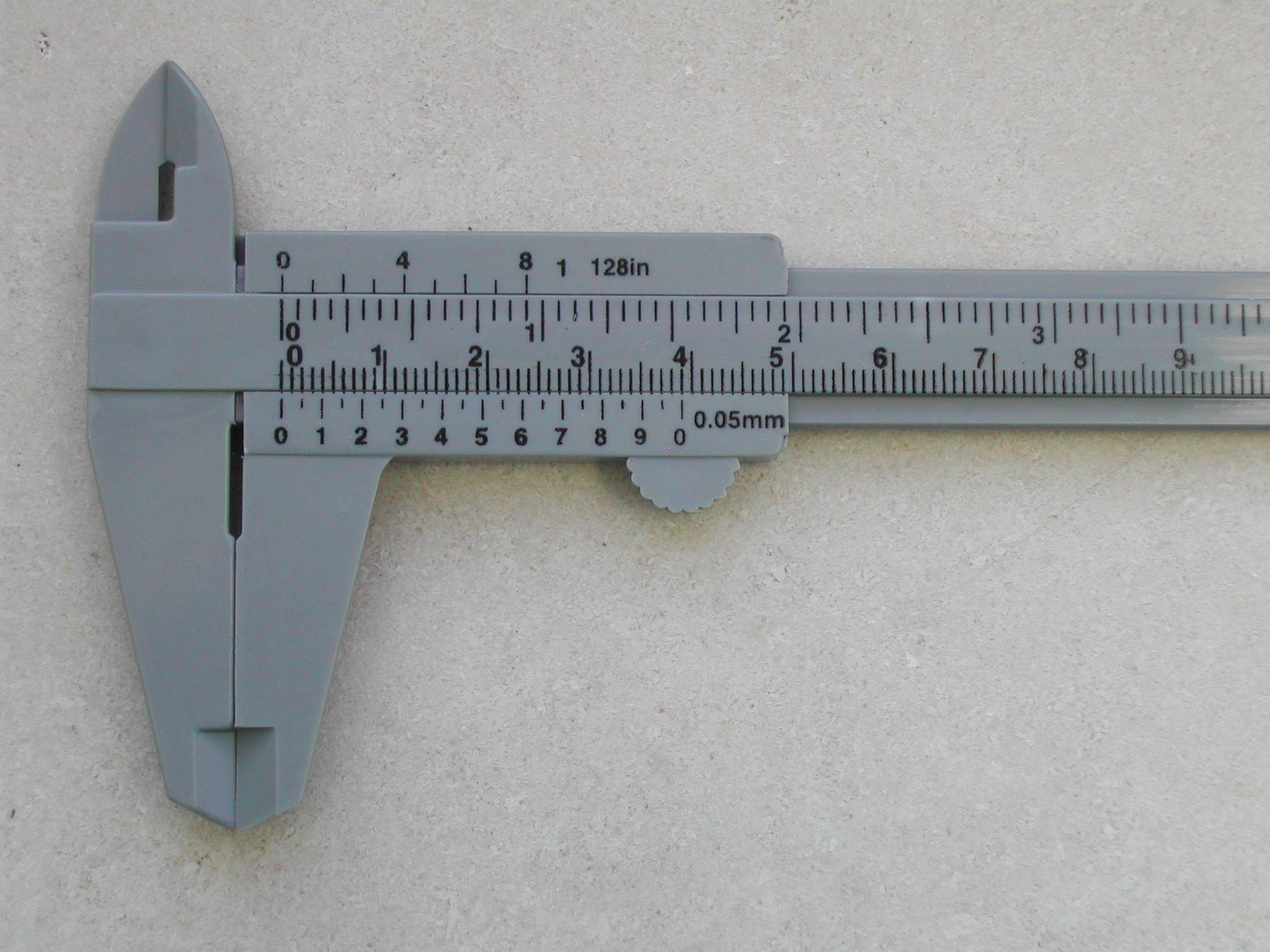 Vernier of plastic caliper